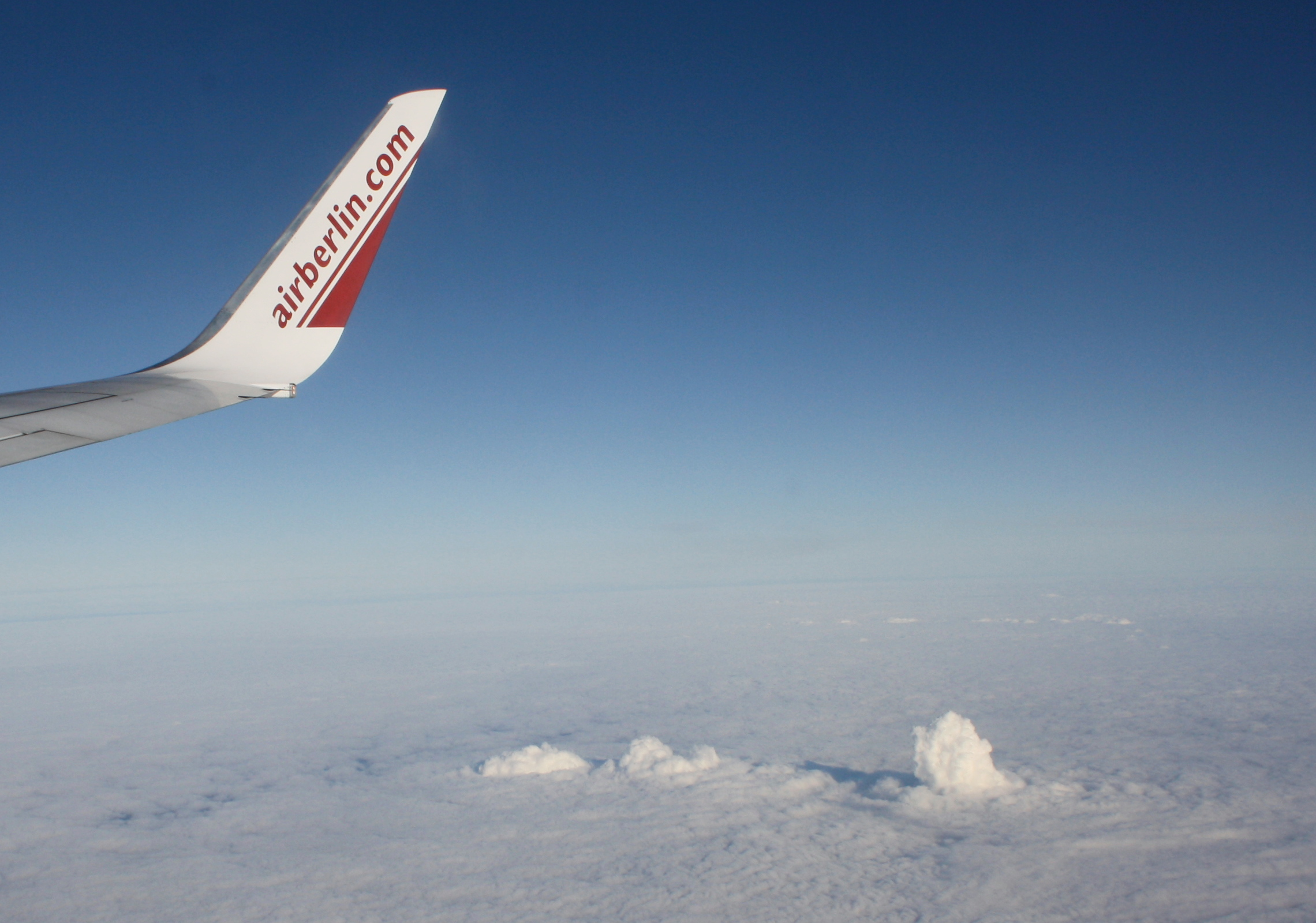 The steam plumes of Frimmersdorf powerstation (left), Neurath powerstation (middle) and Niederaußem powerstation (right) rise through the cloud layer. These clouds contain generally condensed water steam just like natural clouds. However, there is a certain amount of CO2 coming up from the powerstation which is invisible. Picture taken shortly after taking off at Cologne-Bonn Airport, Runway 14L and making a right turn, flying pretty exactly westwards. Aboard flight AB9250 to Mallorca, Registration D-ABBQ, looking northwards.